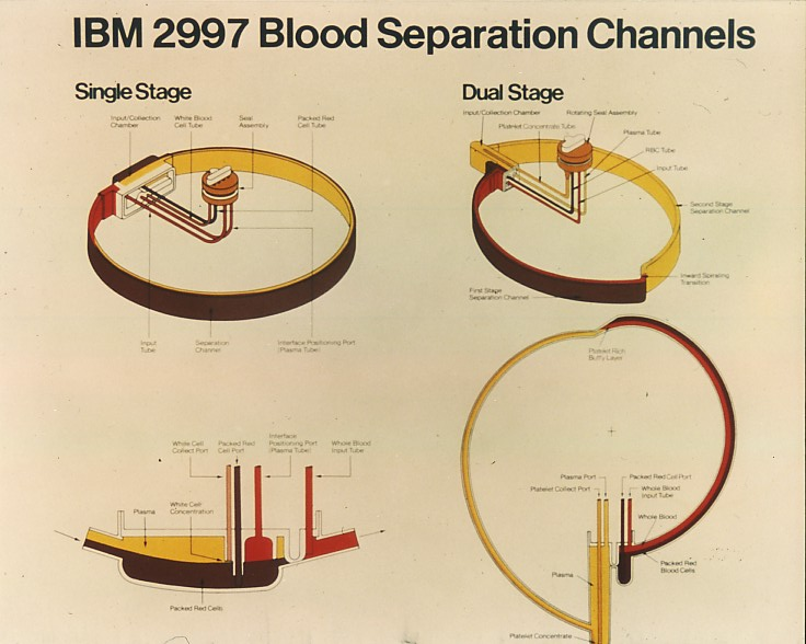 Shows the path of blood as it is separated into its components by centrifugation.